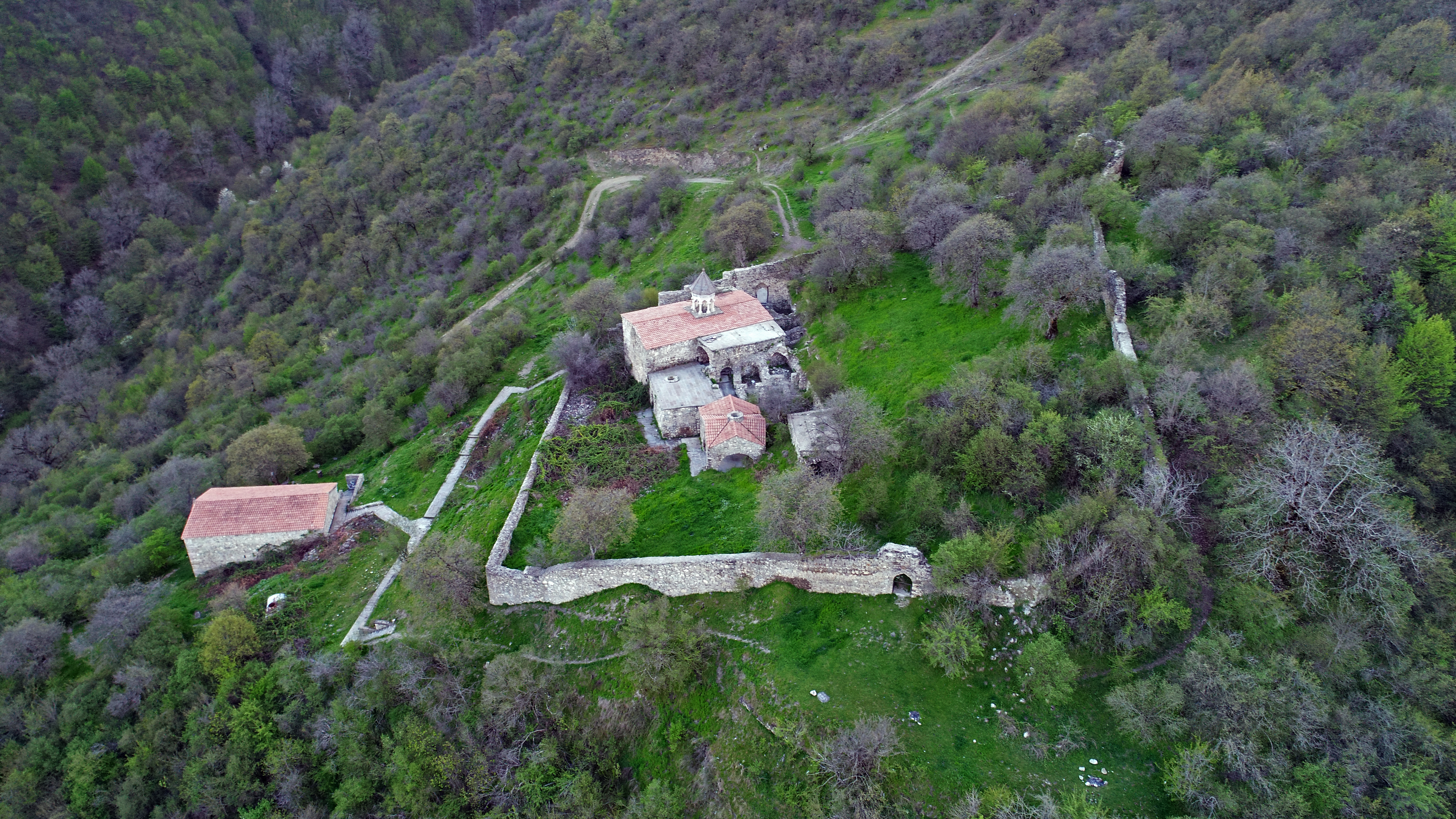 DCIM\100MEDIA\DJI_0073.JPG 1/8.1